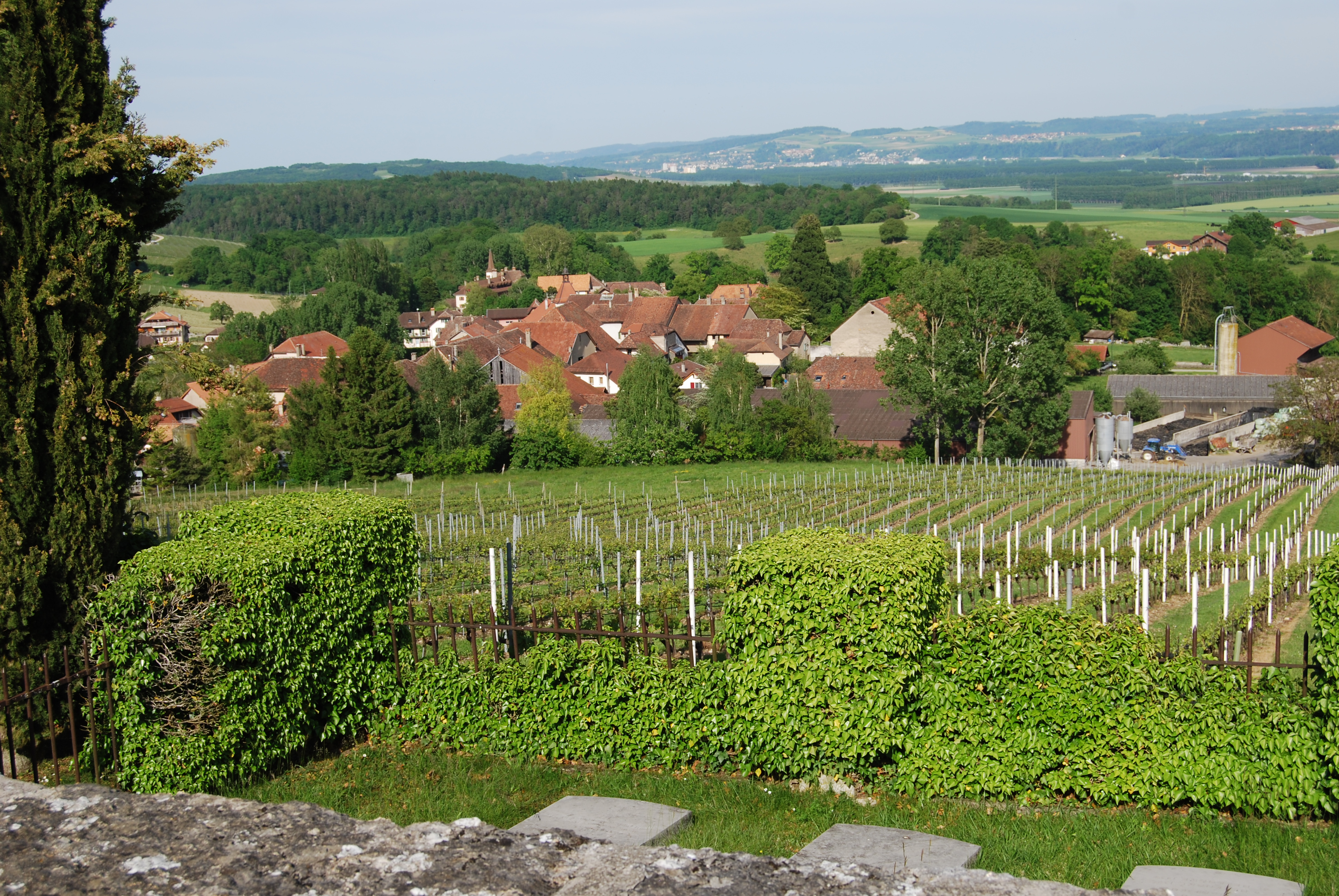 Valeyres-sous-Rances, canton of Vaud, SwitzerlandEsperanto: Valeyres-sous-Rances, Kantono Vaŭdo, Svislando